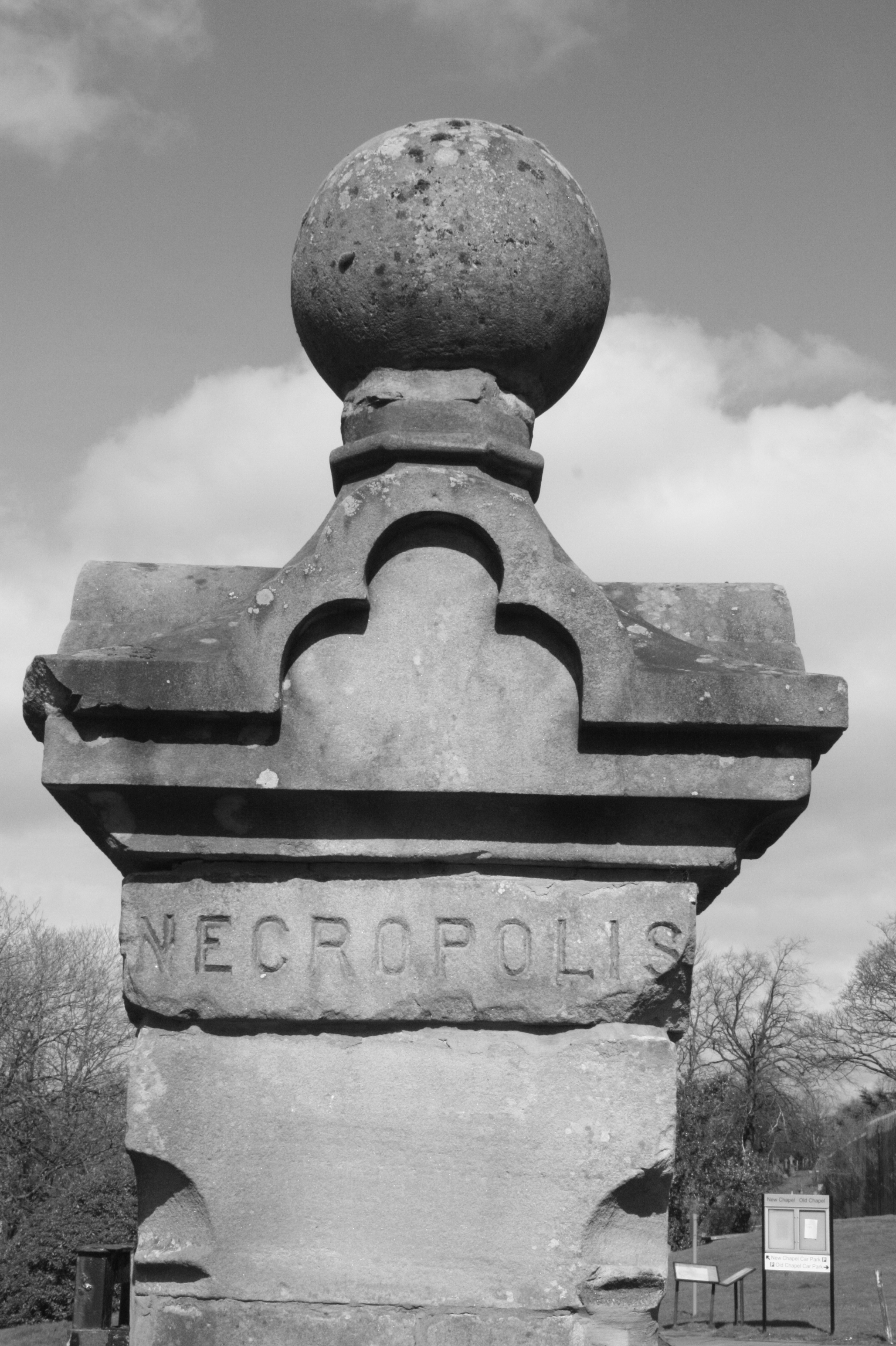 The gatepost at the entrance to the Western Necropolis in Glasgow